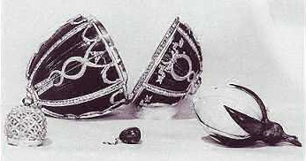 Old photo of the Rosebud egg with the lost surprises, a golden crown, with diamonds and rubies, and a cabochon ruby pendant